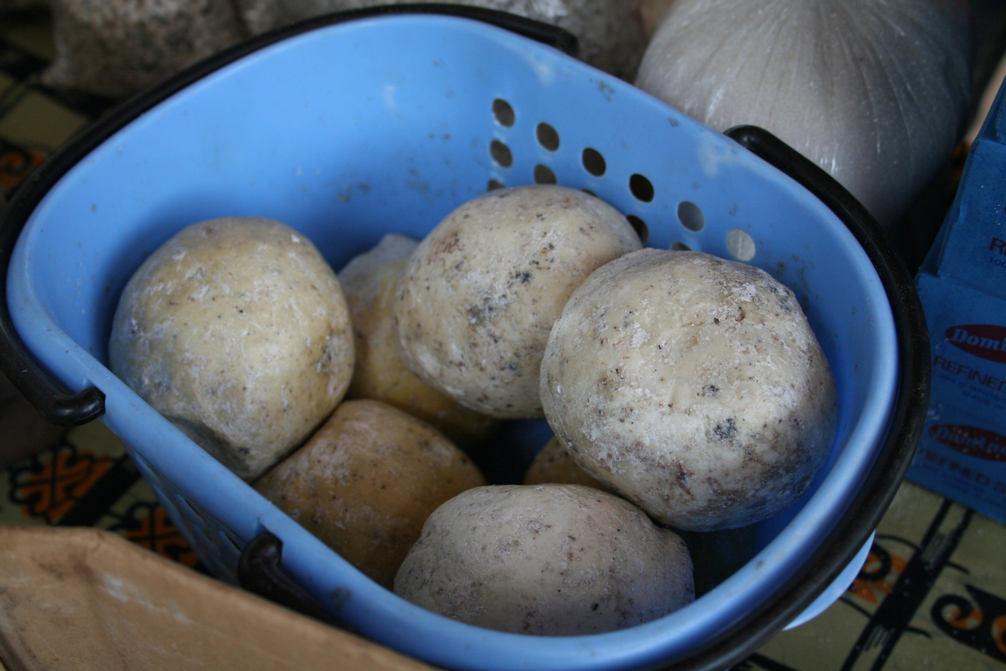 Soap made from shea butter, eastern Burkina Faso